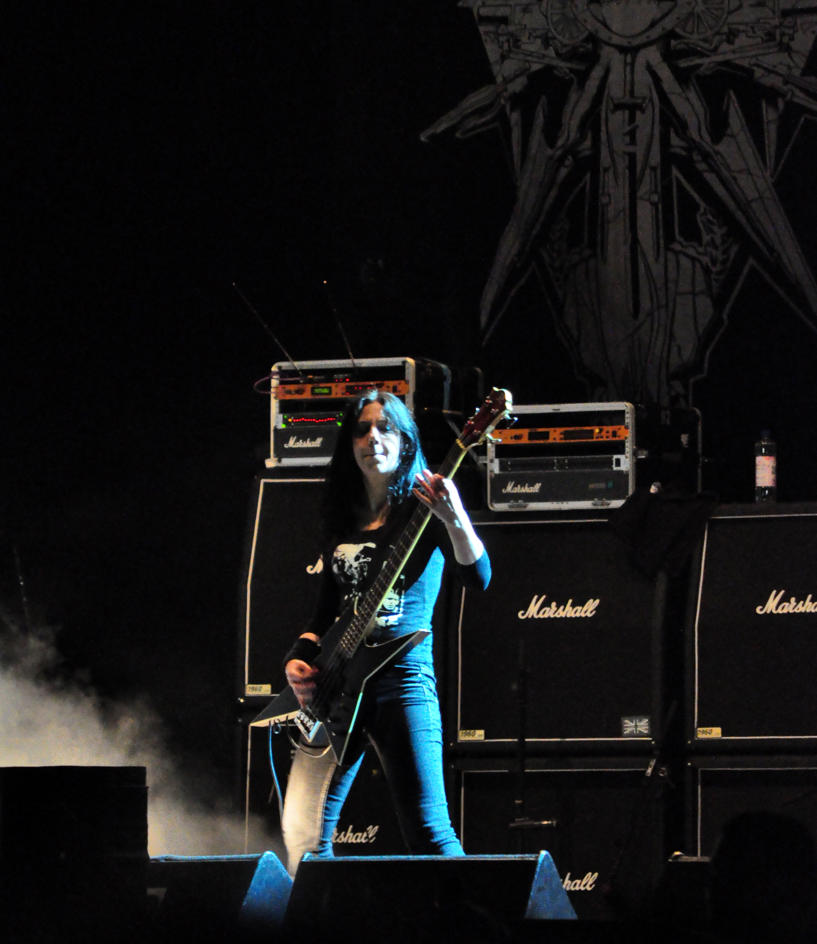 Bolt Thrower at Party.San Open Air 2012